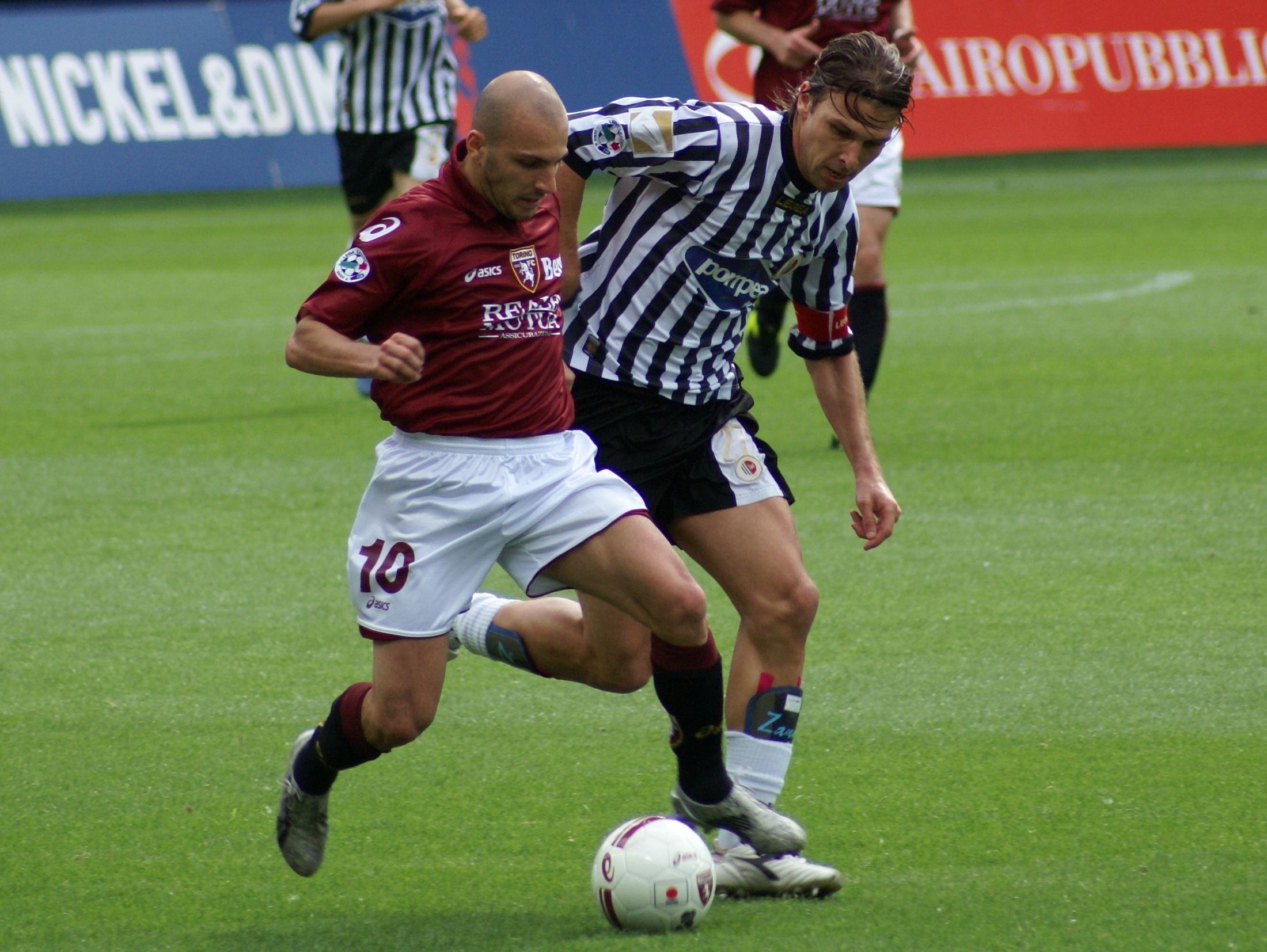 Alessandro Rosina is a midfielder soccer player: here is controlled by Ascoli FC player Paolo Zanetti